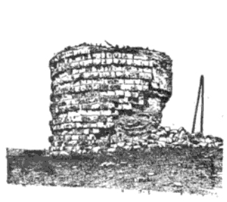 Sketch of a ruined tower at the ribat (Fortress) of Bordj-Khadidja, Ras Kapoudia (Caput Vada), Tunisia circa 1905